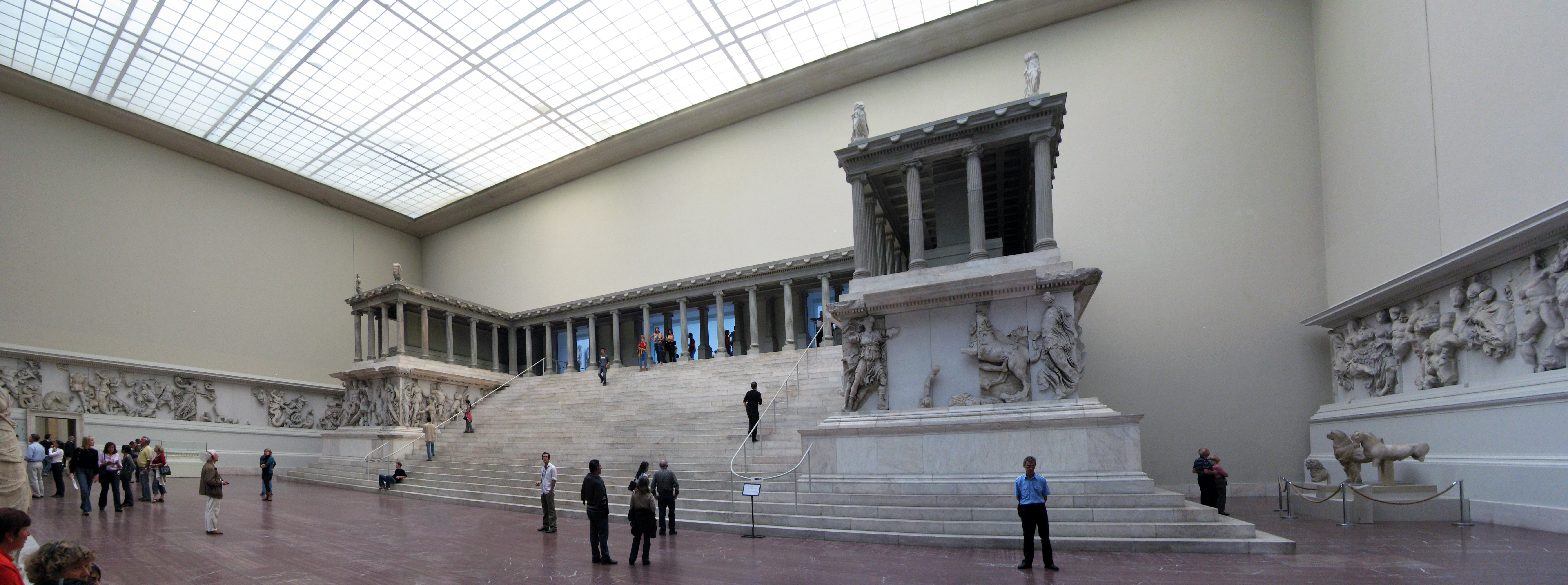 The Pergamon Altar in the Pergamonmuseum in Berlin